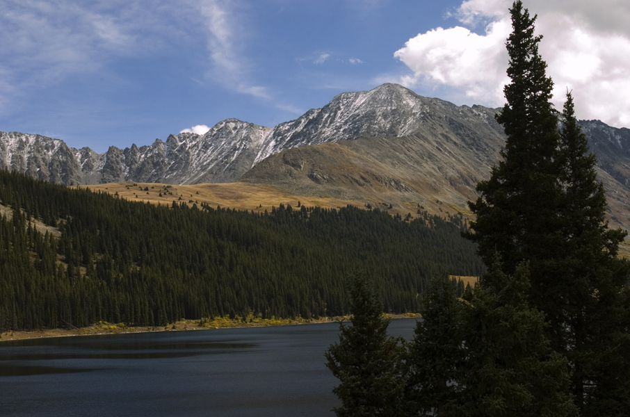 View of the Fletcher Group of the Tenmile Range off of State Highway 91 North of Leadville. The mountain that looks largest is "Drift Peak" the quotations are because it is unnamed on many maps, it has an unofficial elevation of 13,900 feet, and is charactorized by its double humped peak. Fletcher Mountain is the next largest peak to the left, although it is taller than "Drift Peak" with an elevation of 13,951. It is only smaller than Quandary Peak in the Tenmile Range. Clinton Resevoir is in the foreground.